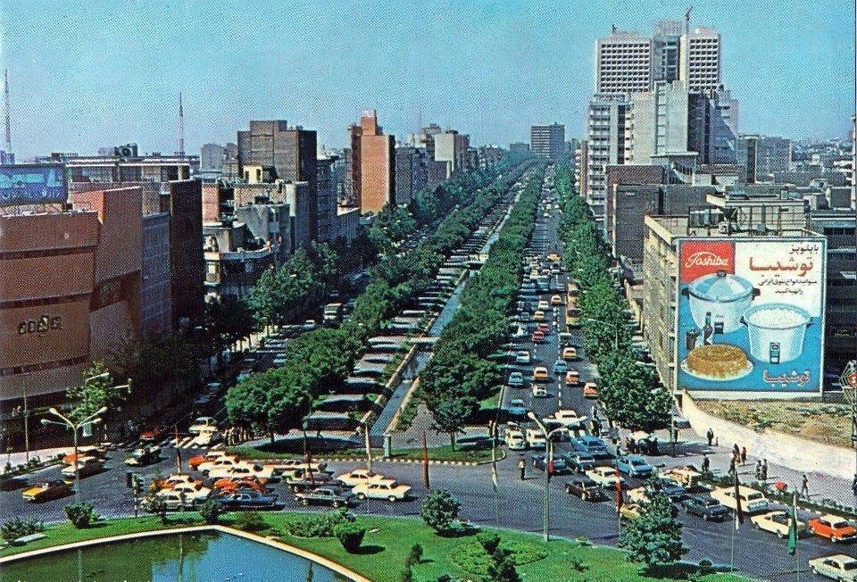 A view of Elizabeth (later Keshavarz) Boulevard of Tehran from Valiahd Sq. (later Valiasr Sq.) in mid 1970s (East to West view)